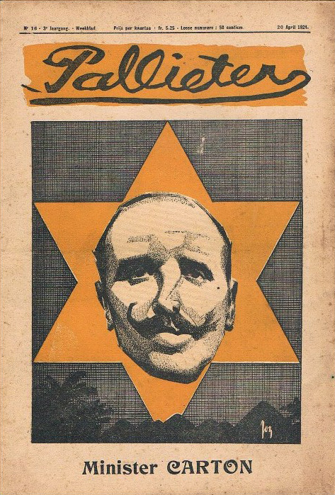 Henri Carton de Wiart. Front page of the Flemish magazine Pallieter (1922-1928). All front pages were designed and illustrated by Jos De Swerts (1890-1939).